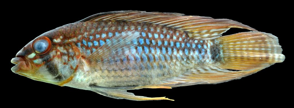 Apistogramma steindachneri AUFT2145 GUY14-28 67mm